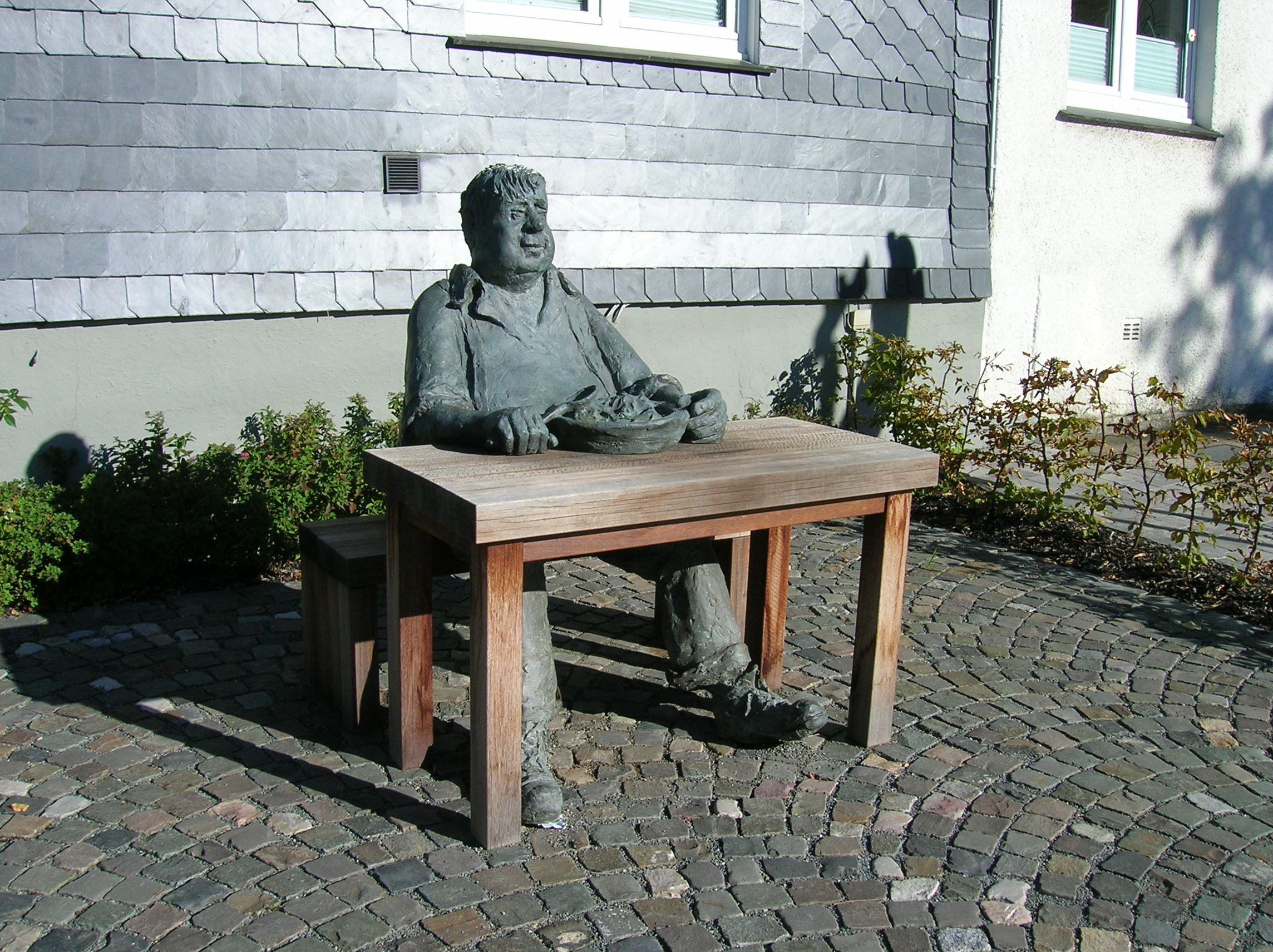 The sculpture Breybalg (modern